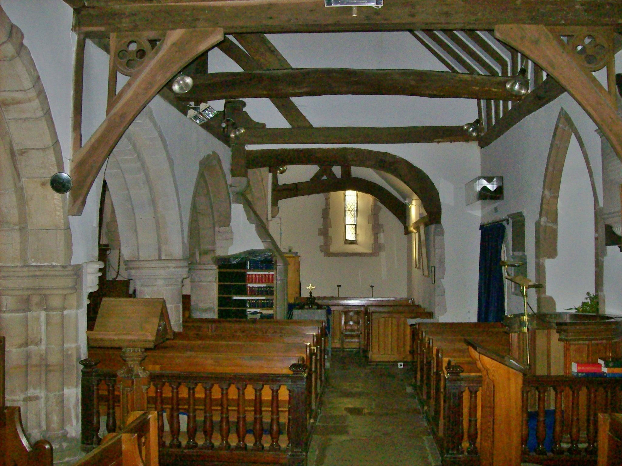 St James, Ashurst, interior looking west